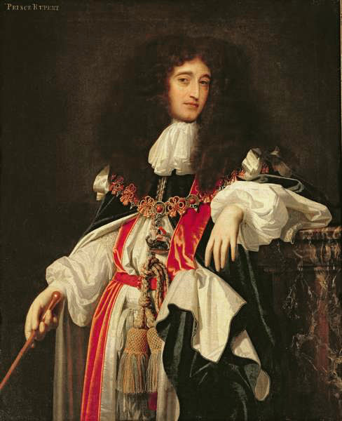 Prince Rupert of the Rhine